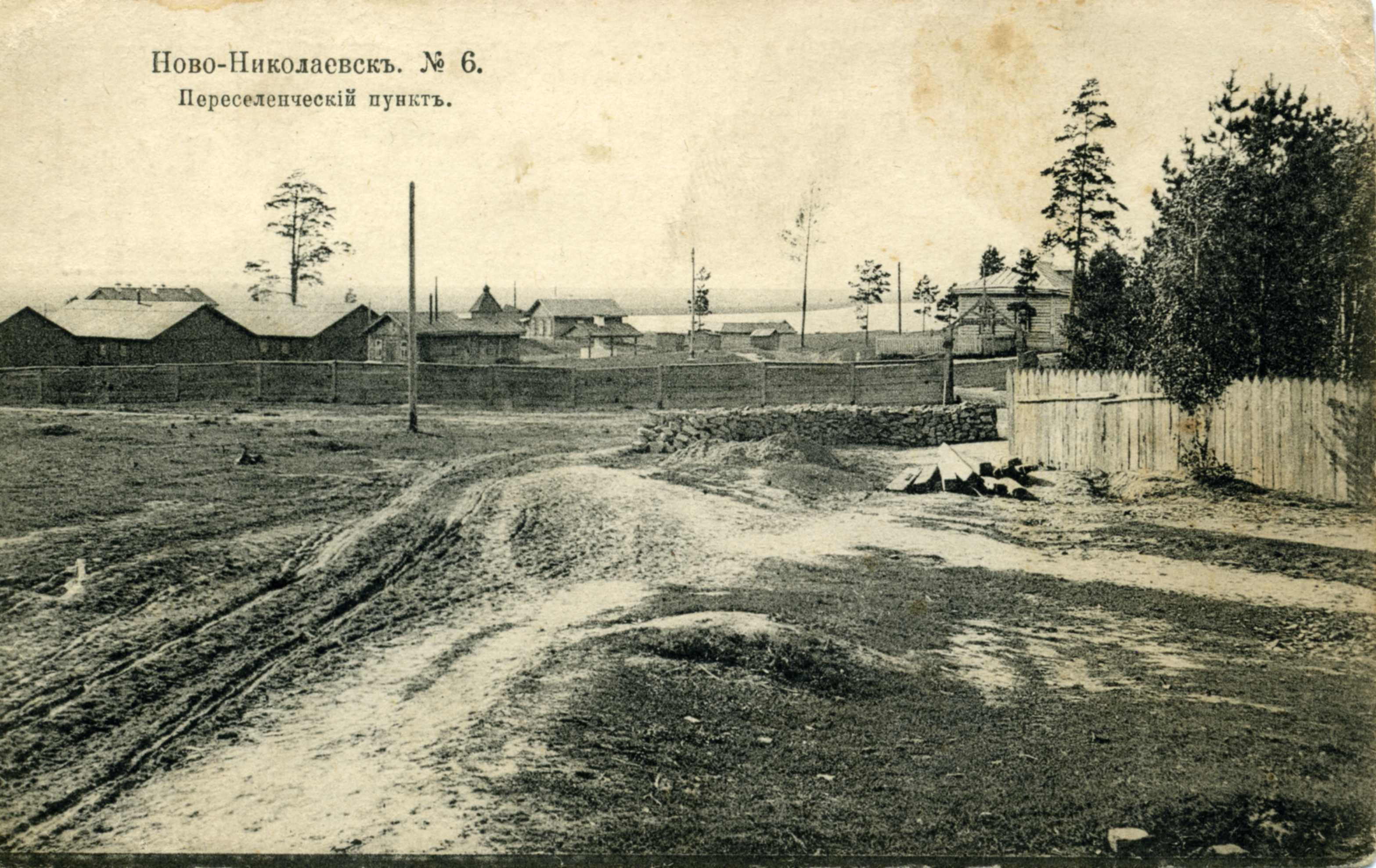 Pereselenchesky Punkt in Novonikolayevsk.